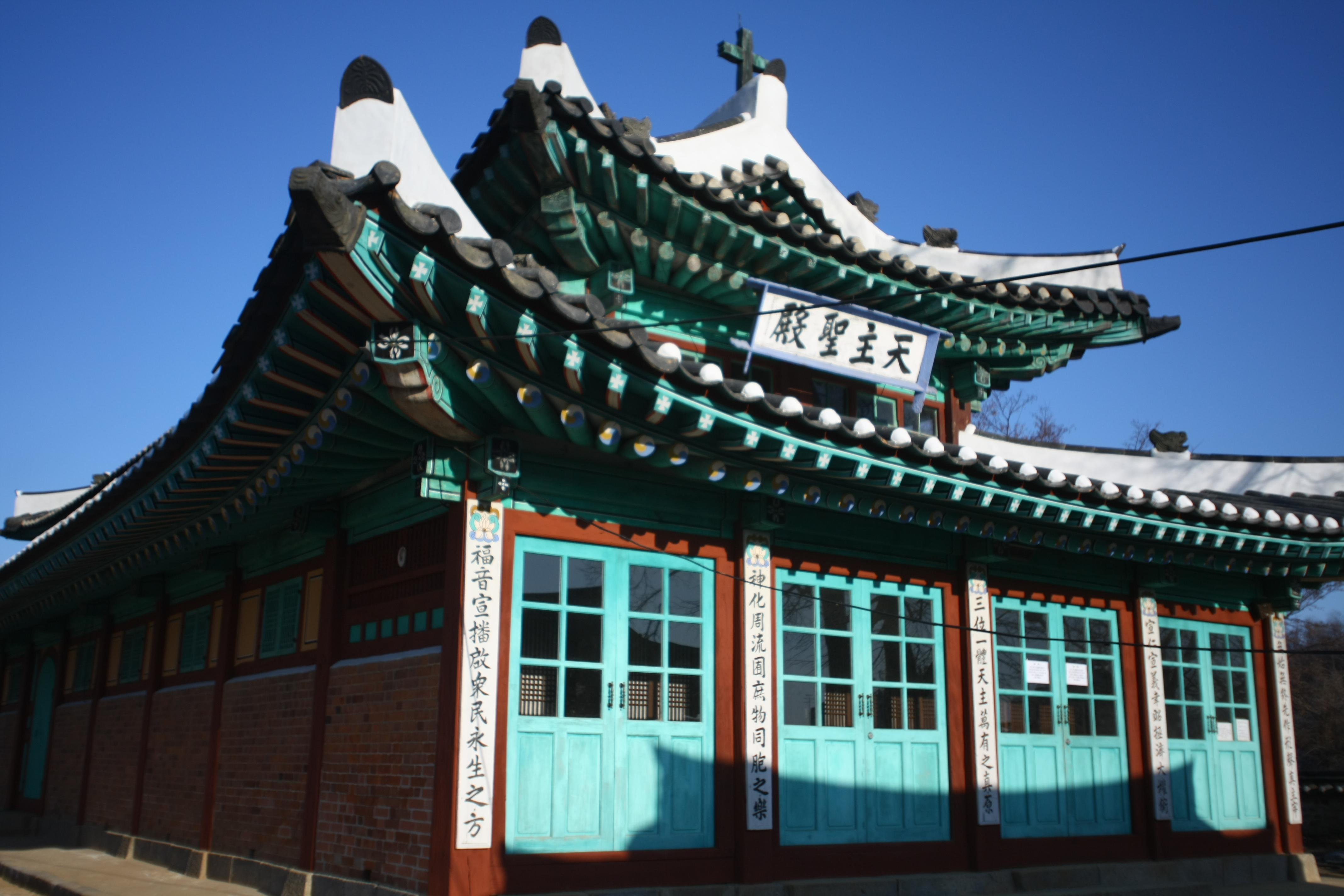 Ganghwa Anglican church, Ganghwa Korea